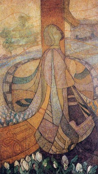 Madonna in a Tulip Field. Oil on canvas. 146 × 86 cm.